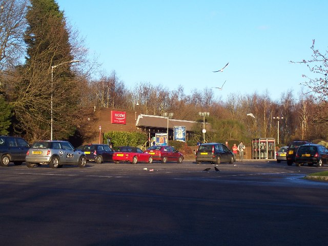 Rownhams service station